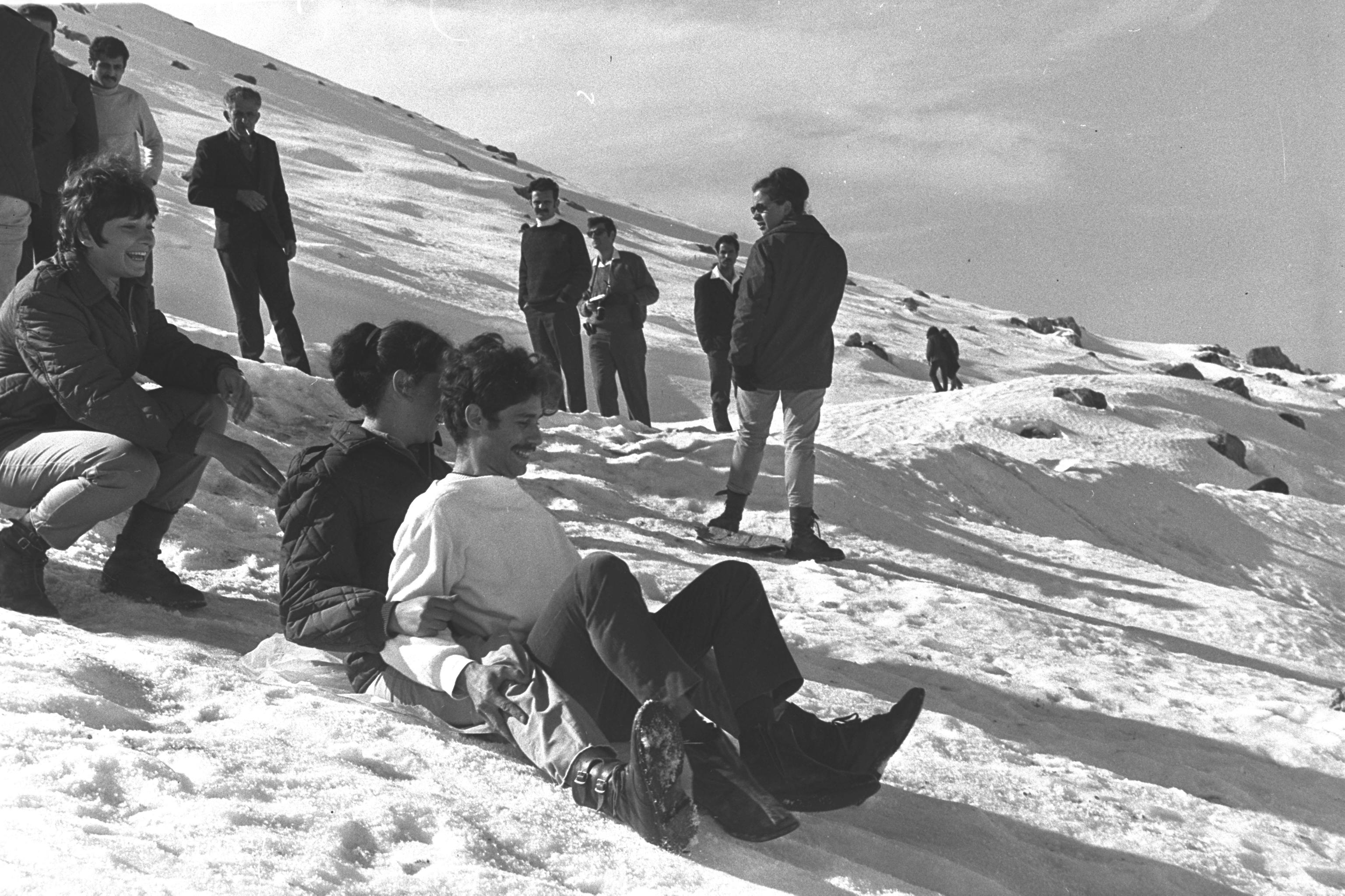 Tourists have fun on the slopes of the Mt. Hermon Ski Resort. תיירים גולשים בשלג בהר החרמון Photo: Moshe Milner (1946–) Alternative names Miylner, Moše; Milner, Mosheh; Moshé Milner; Milner, M.; Mîlner, Moše; Miylner, MošehDescriptionIsraeli photographerצלם ישראליDate of birth 1946 Location of birth Germany Authority control : Q28750411 VIAF: 100999744 ISNI: 0000 0001 0804 0507 LCCN: n82072104 GND: 115699732 BNF: 15548788n WorldCat creator QS:P170,Q28750411 , 02/07/1970